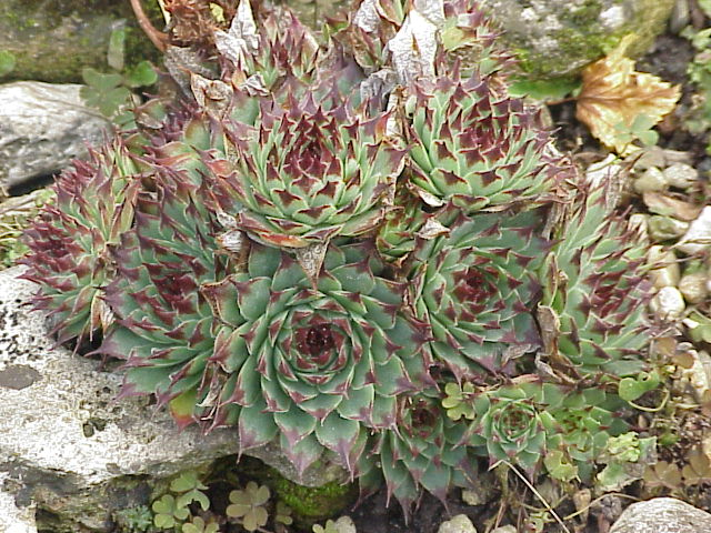 Species: Sempervivum calcareum Family: Crassulaceae Image No. 2